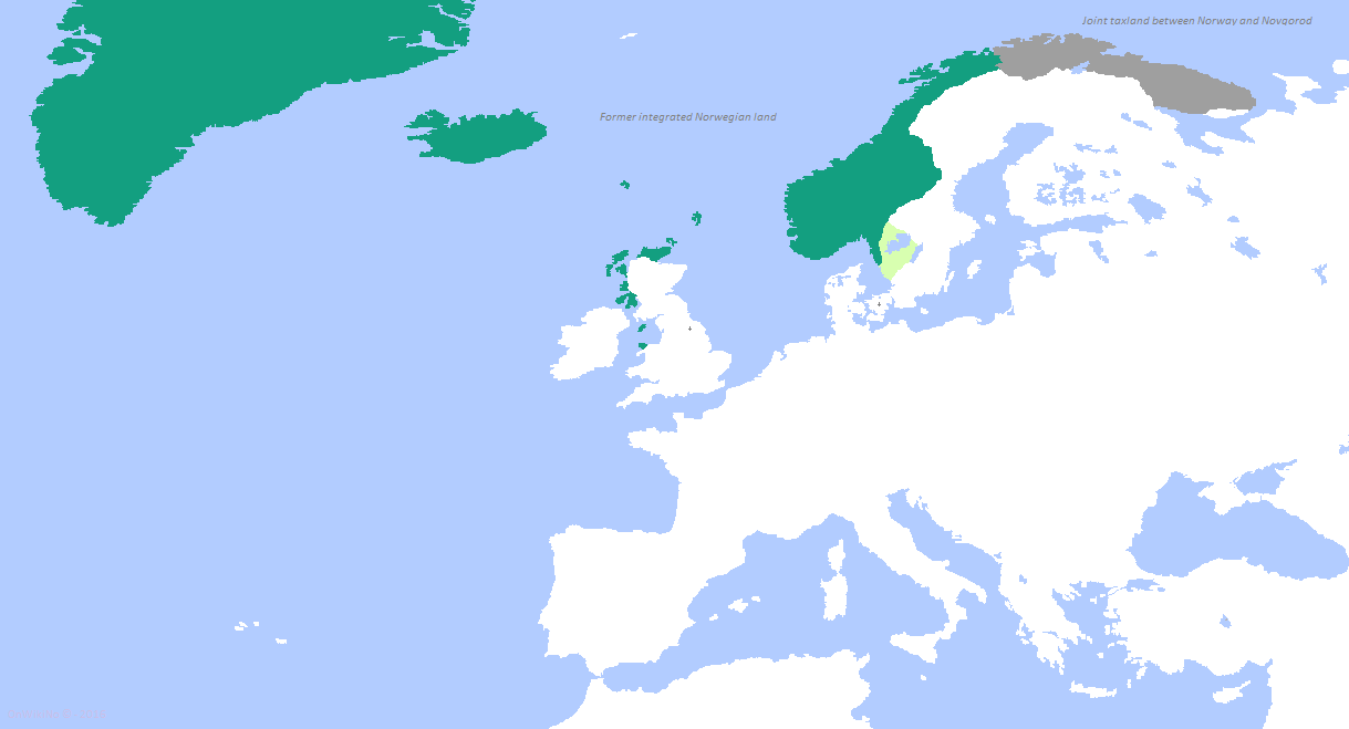 Kingdom of Norway at its biggest